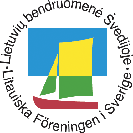 Logo of the Lithuanian community in Sweden.